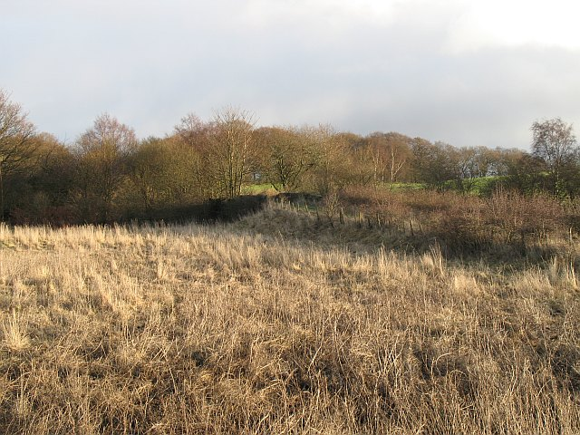 Drumpelier Country Park What looks like a former field between a disused railway, and beyond the railway some rough woodland on an old colliery site, and the A752. A large area of old industrial land and woodland is now managed as a country park.